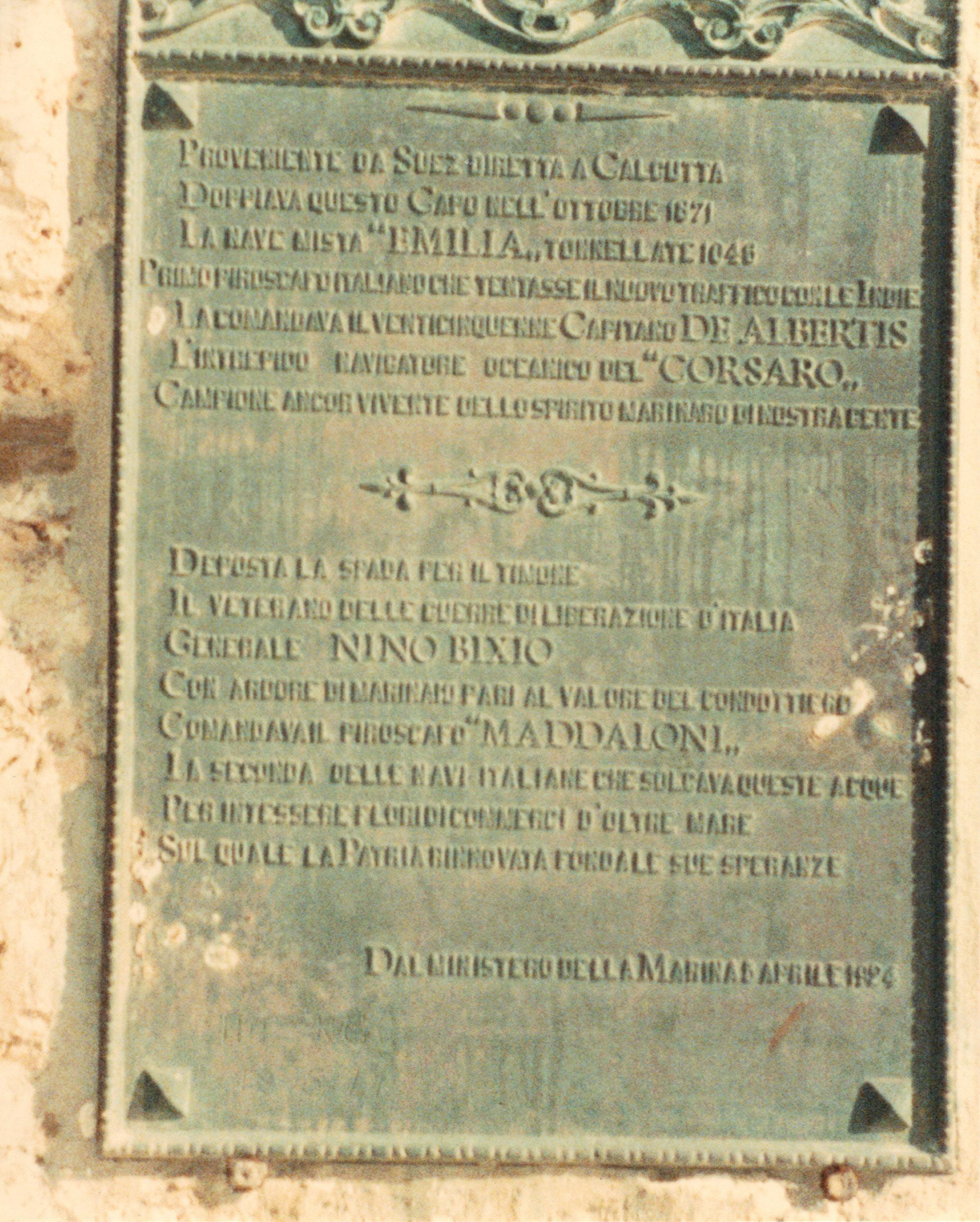 The Italian dedication on appears on this plaque which is affixed to the base of a non-functional Italian masonry lighthouse which stands at the extreme tip of the Horn of Africa at a place called Cape Guardafui.